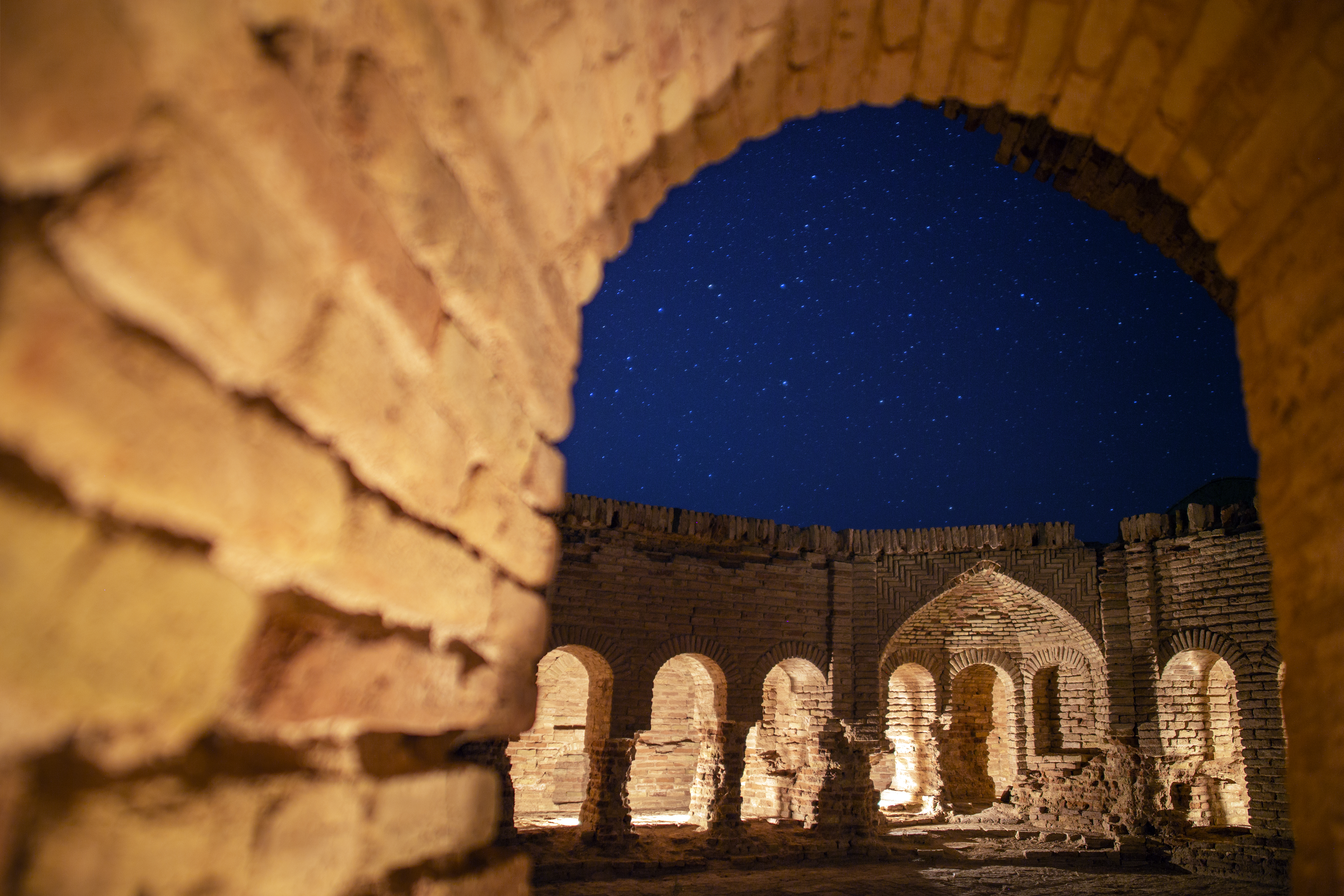 Deir-e Gachin Caravansarai is one of the greatest caravansarais of Iran which is located in the center of Kavir National Park. Its unique qualities is the reason it is called “Mother of Iranian Caravansarais”. It is located in the Central District of Qom County, 80 kilometers north-east of Qom (60 kilometers into Garmsar Freeway) and 35 kilometers south-west of Varamin. (Photo by: Mostafa Meraji, wiki loves monuments 2018)